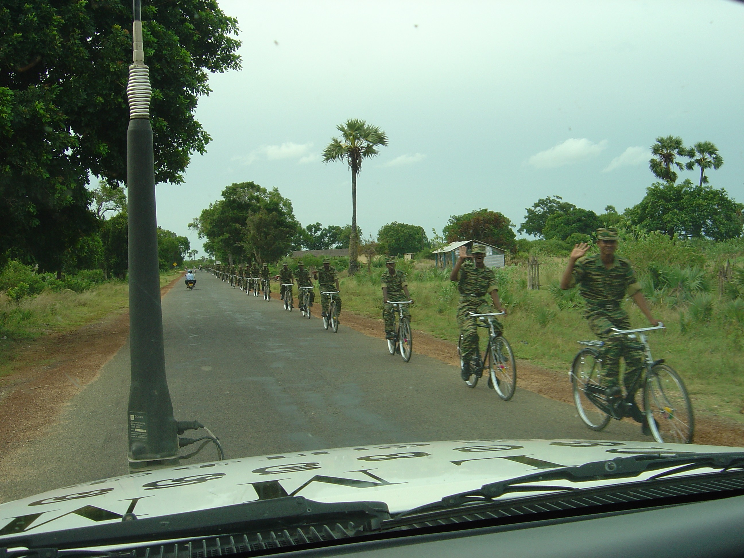 I took the picture in 2004, it shows a LTTE bike platoon north of Kilinochi.